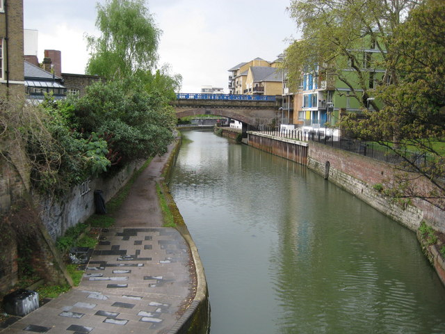 Limehouse Cut (2) The Limehouse Cut was built to provide a navigable short-cut from the River Thames at Limehouse Basin north-east to the River Lee Navigation at Bromley-by-Bow, thus avoiding the long meandering curves of the lower reaches of the River Lee at Bow Creek, and the long bend in the River Thames around the Isle of Dogs. It was authorised by the River Lee Act of 1766, and completed in 1770 so it is effectively the oldest canal in London. This view was taken from the Britannia Bridge looking in the direction of Limehouse Basin, which is just around the bend to the right beyond the railway bridge.